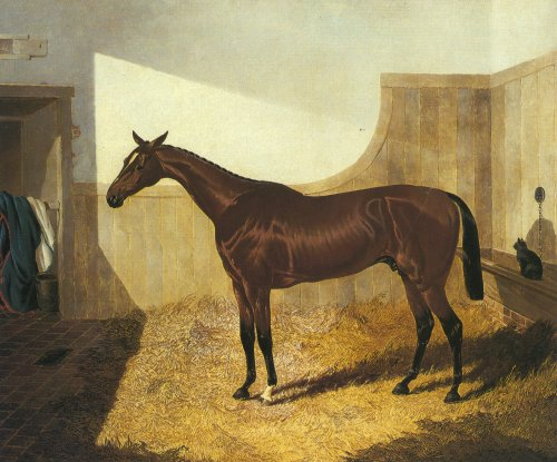 Sir Tatton Sykes, winner of the 1846 St Leger, by John Frederick Herring Jr 1820-1907 Author dead for 105 years